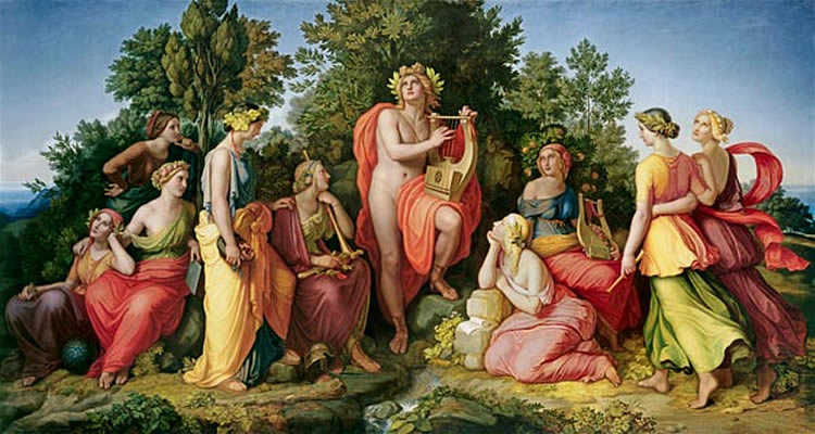 Apollo and the Muses